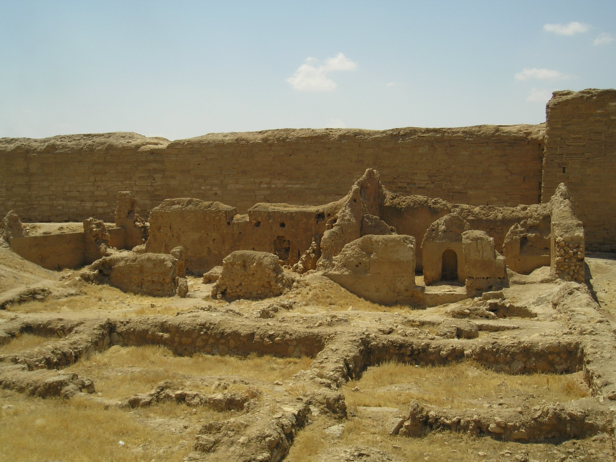 Dura Europos, Syria, remains of the Block L7 northern houses, C and D at the back, I at the foreground.